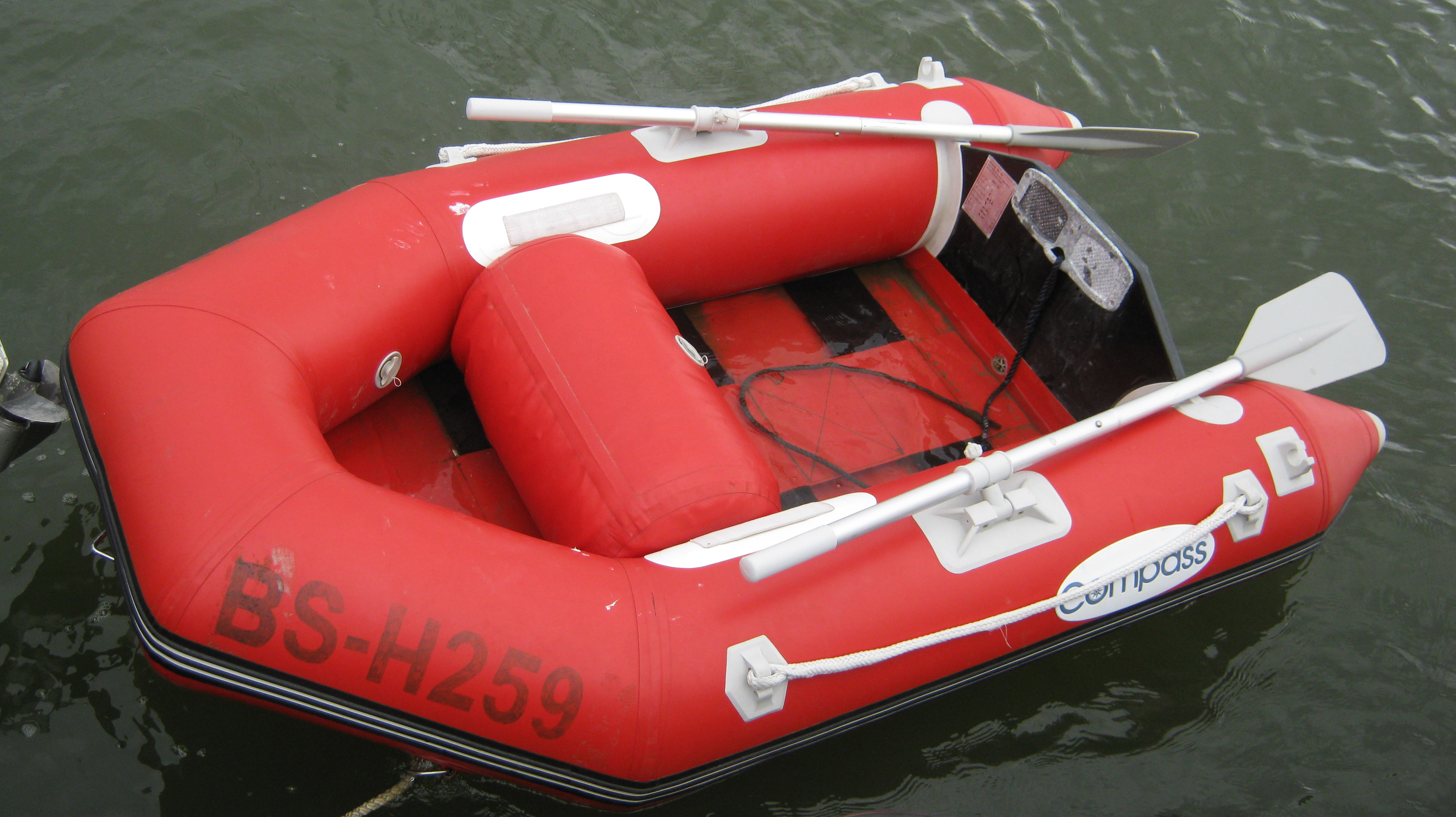 2 Meter Dinghy